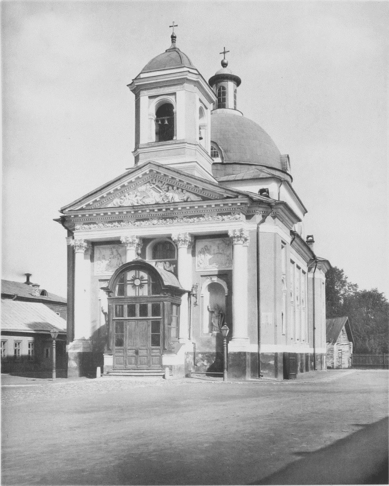 Plate 59: Armenian church in Armenian Lane, Moscow.